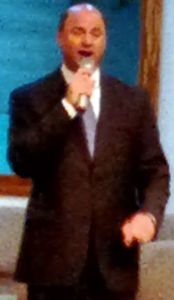 Baritone Rodney Griffin of the gospel music trio Greater Vision